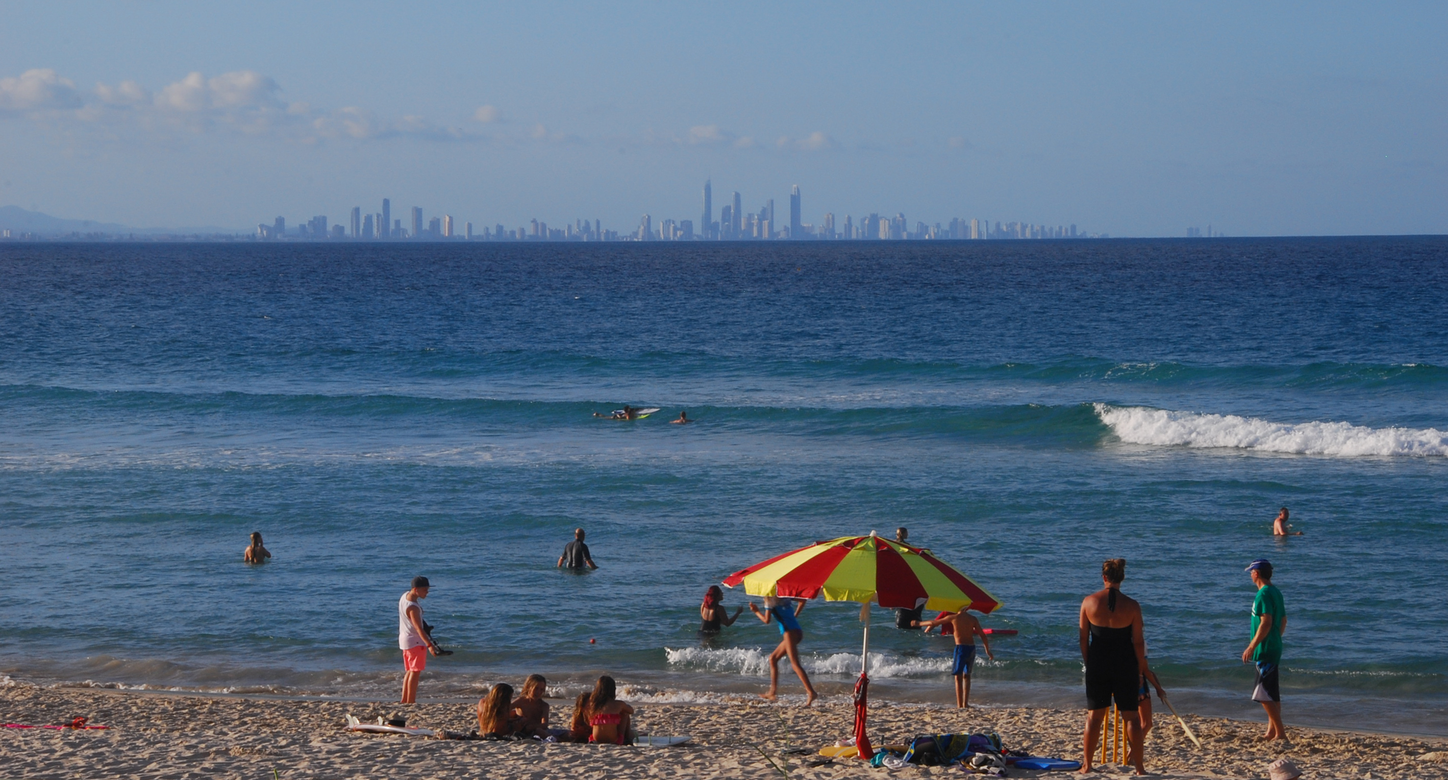 A beach with the Surfers Paradise skyline in the background. Gold Coast, Australia ca. January 2015